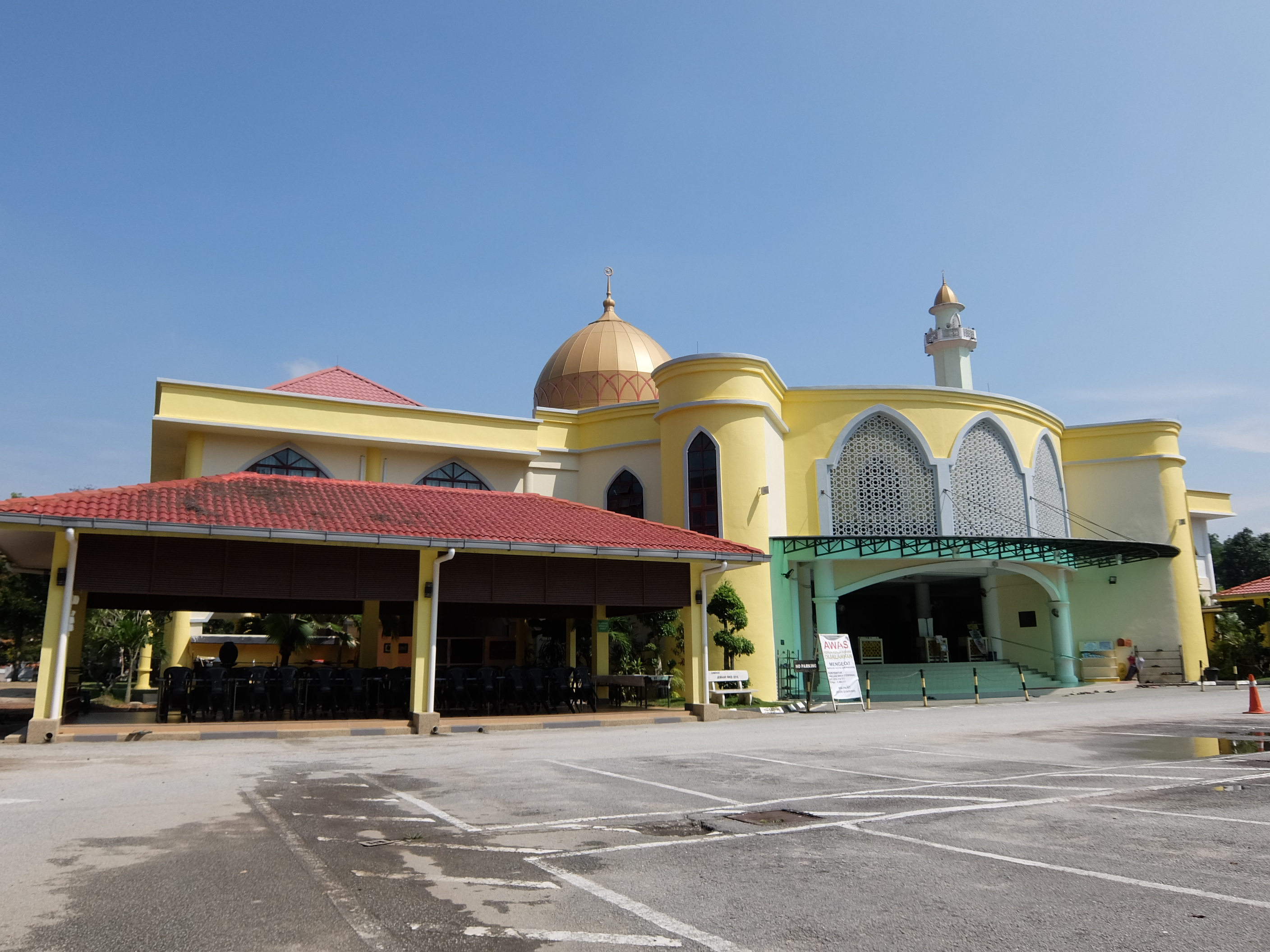 Kota Damansara Mosque, Kota Damansara, Petaling Jaya, Petaling, Selangor, Malaysia